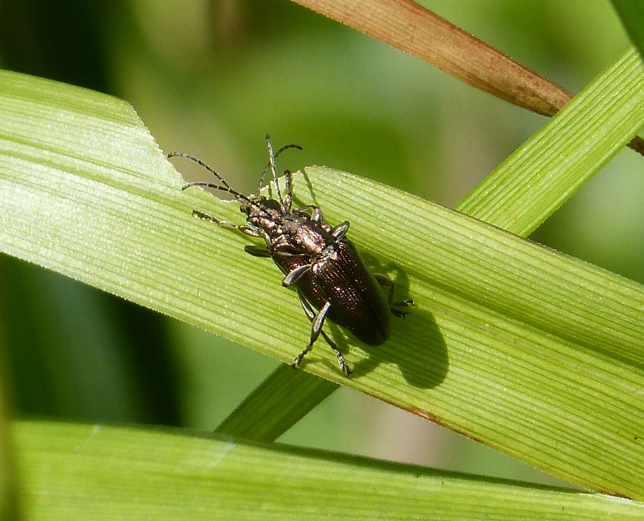 SO973563 . WWT Grafton Wood, Worcs.